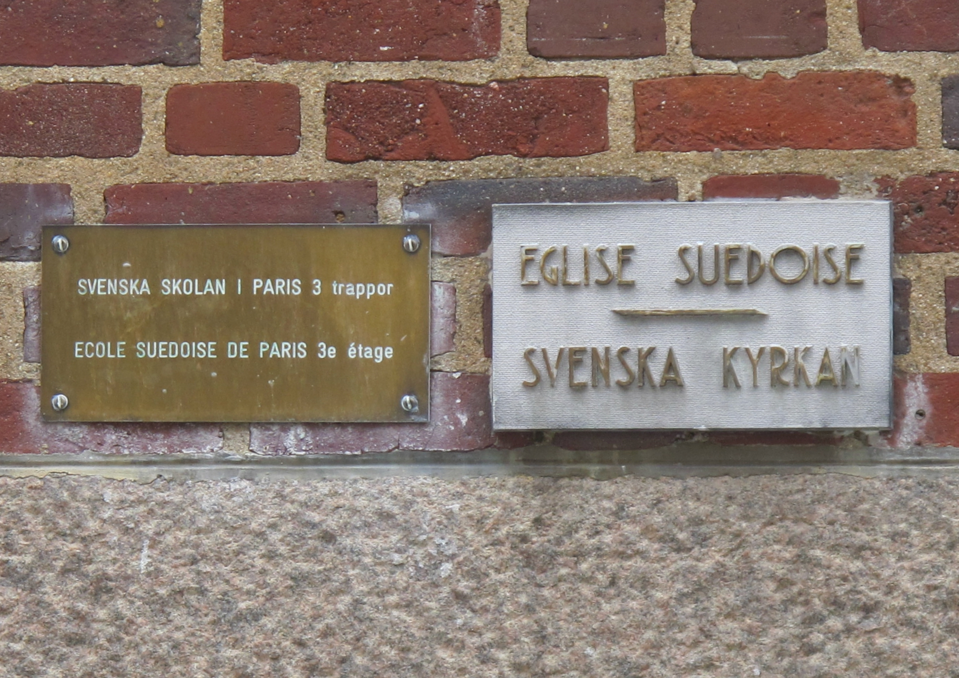 Church of Sweden in Paris - Includes a marker for the Swedish school, on the third floor